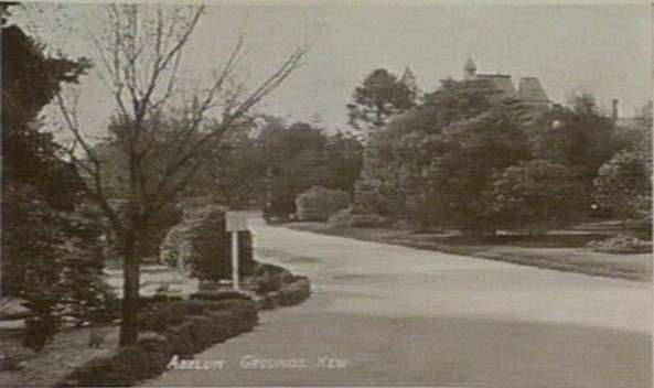 Postcard of the Asylum grounds and gardens at Kew